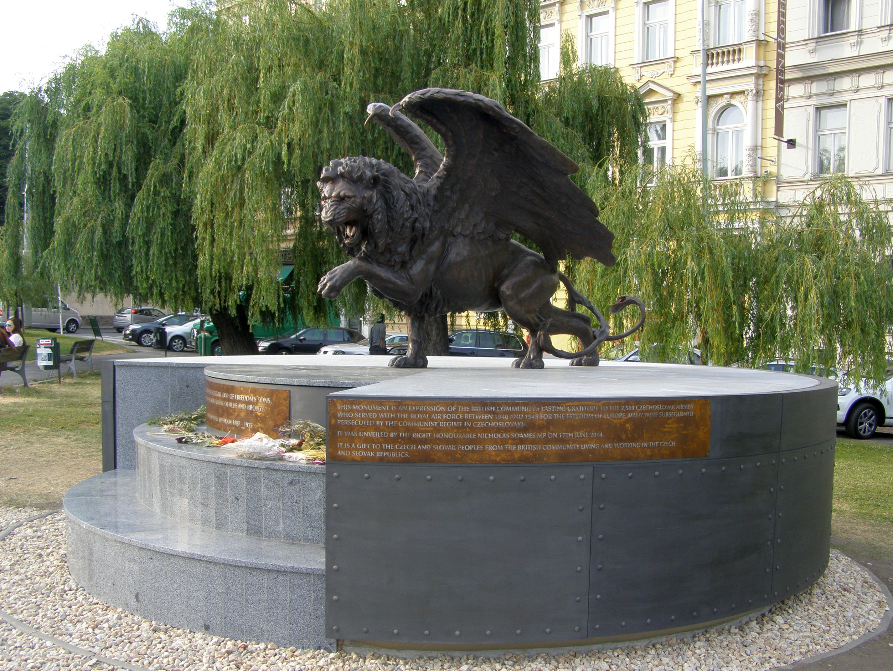 Czech Republic, Prague, Klárov, date of unveiling the monument 17. June 2014. Winged lion. This monument is an expression of the British community’s lasting gratitude to the 2,500 Czechoslovak airmen who served with the Royal Air Force between 1940 and 1945 for the freedom of Europe. Many were subsequently persecuted by the communist regime in Czechoslovakia.